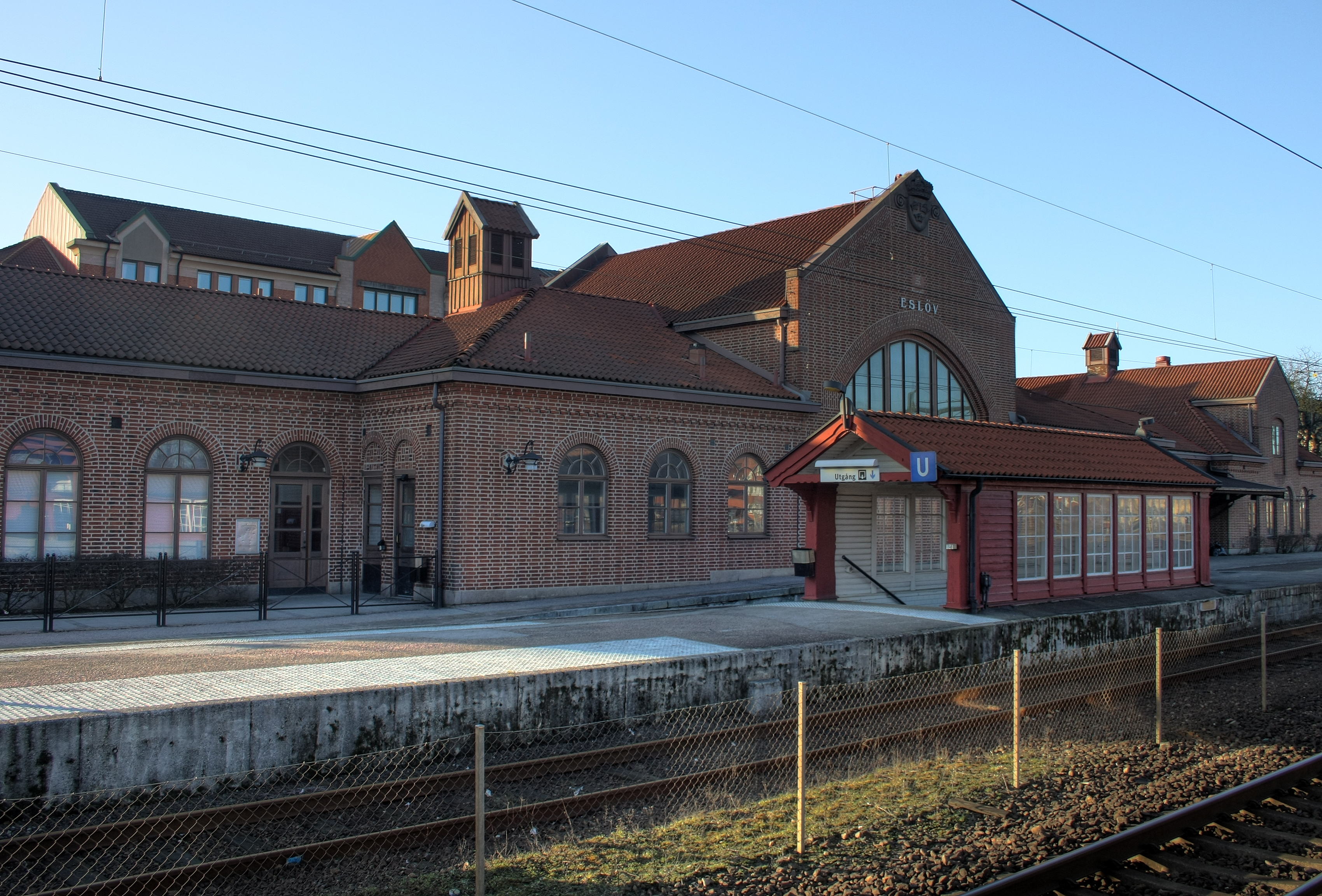 Eslöv train station in Eslöv, Sweden